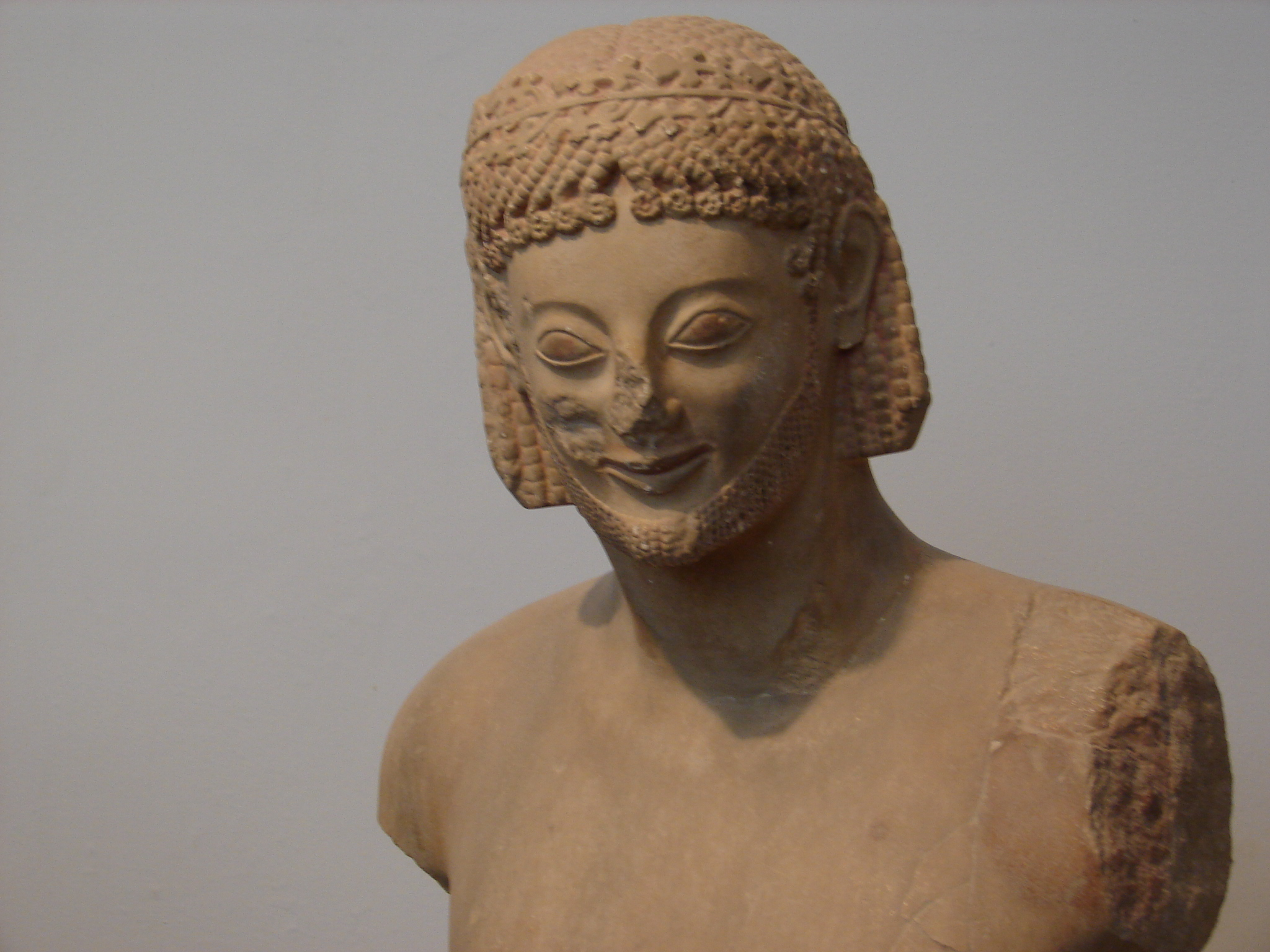 Kouros' Head to horse, Acropolis' museum, Athens, (Detail)